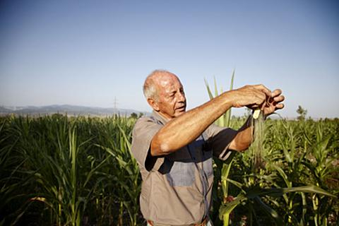 South African farmer Piet Kemp inspecting baby corn in Sartichala, Georgia, July 28, 2011.